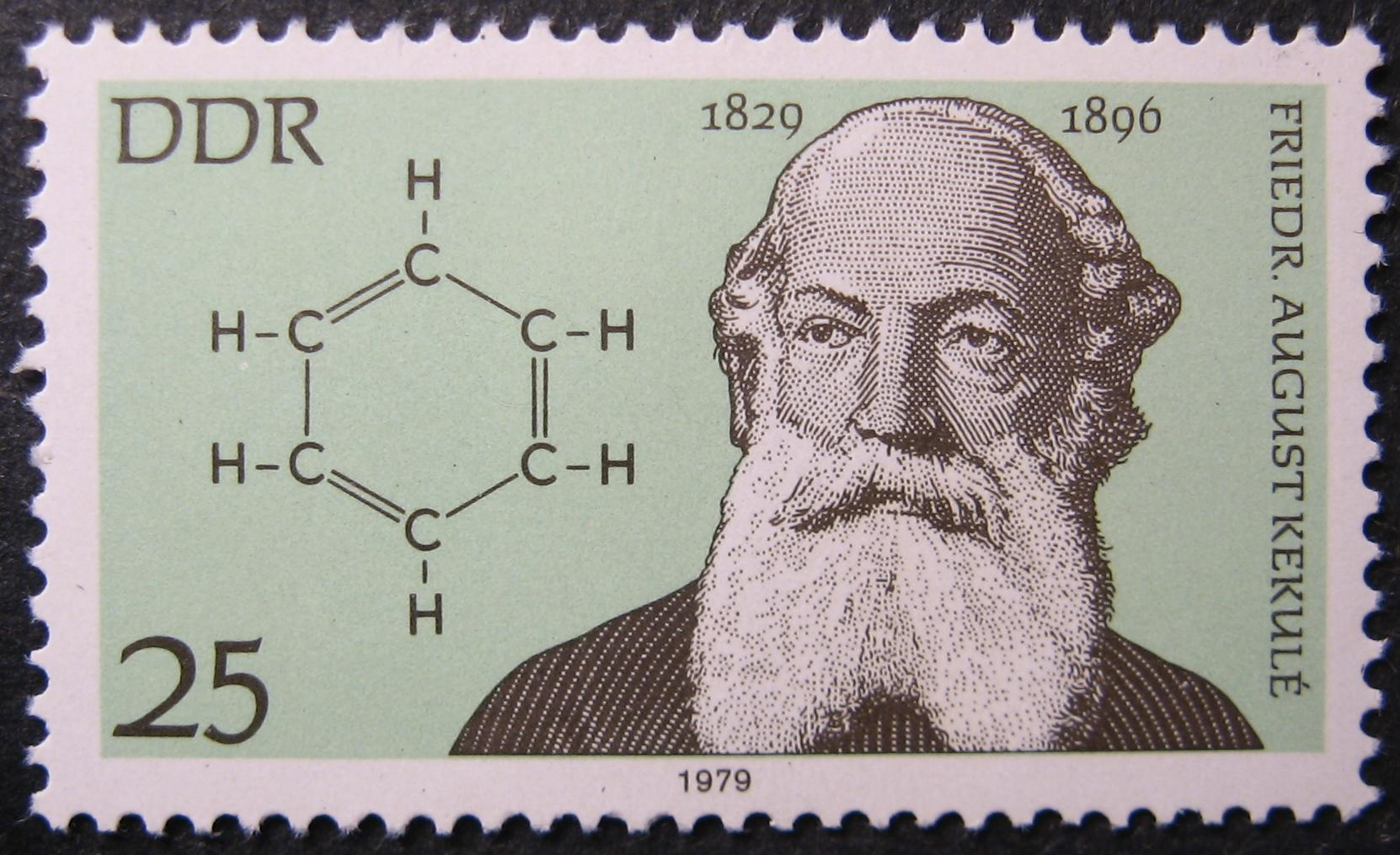 east German stamp of Kekulé, discoverer of cyclic structure of Benzene, in honor of sesquicentennial of his birth